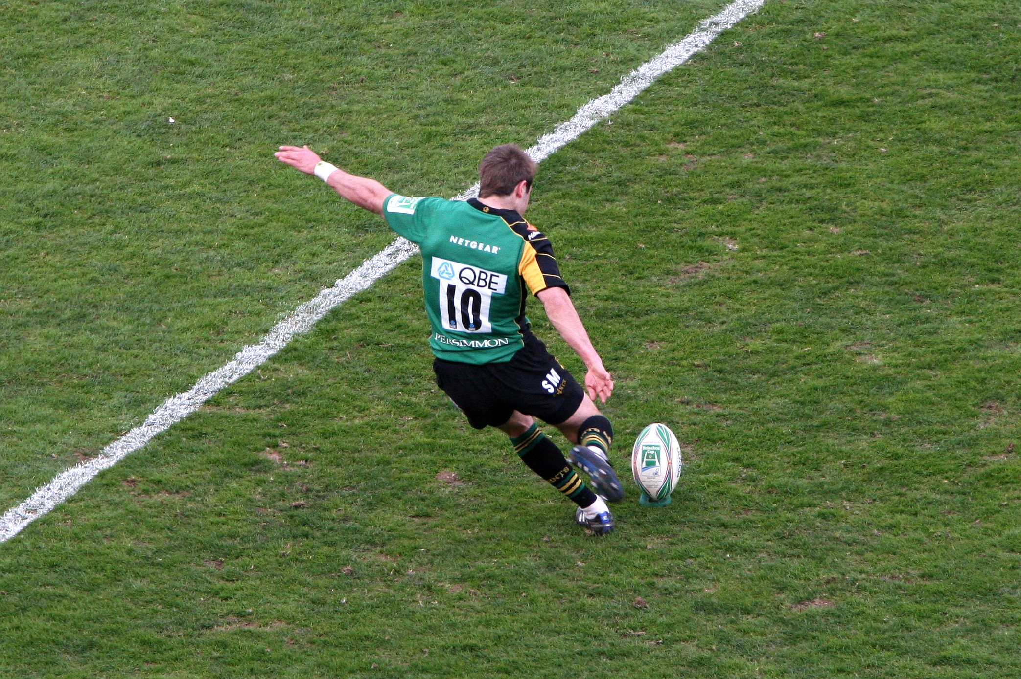 Munster vs Northampton Saints in the Heineken Cup Quarter Final at Thomond Park, Limerick - 10th April 2010 Munster vs Northampton Saints in the Heineken Cup Quarter Final at Thomond Park, Limerick - 10th April 2010